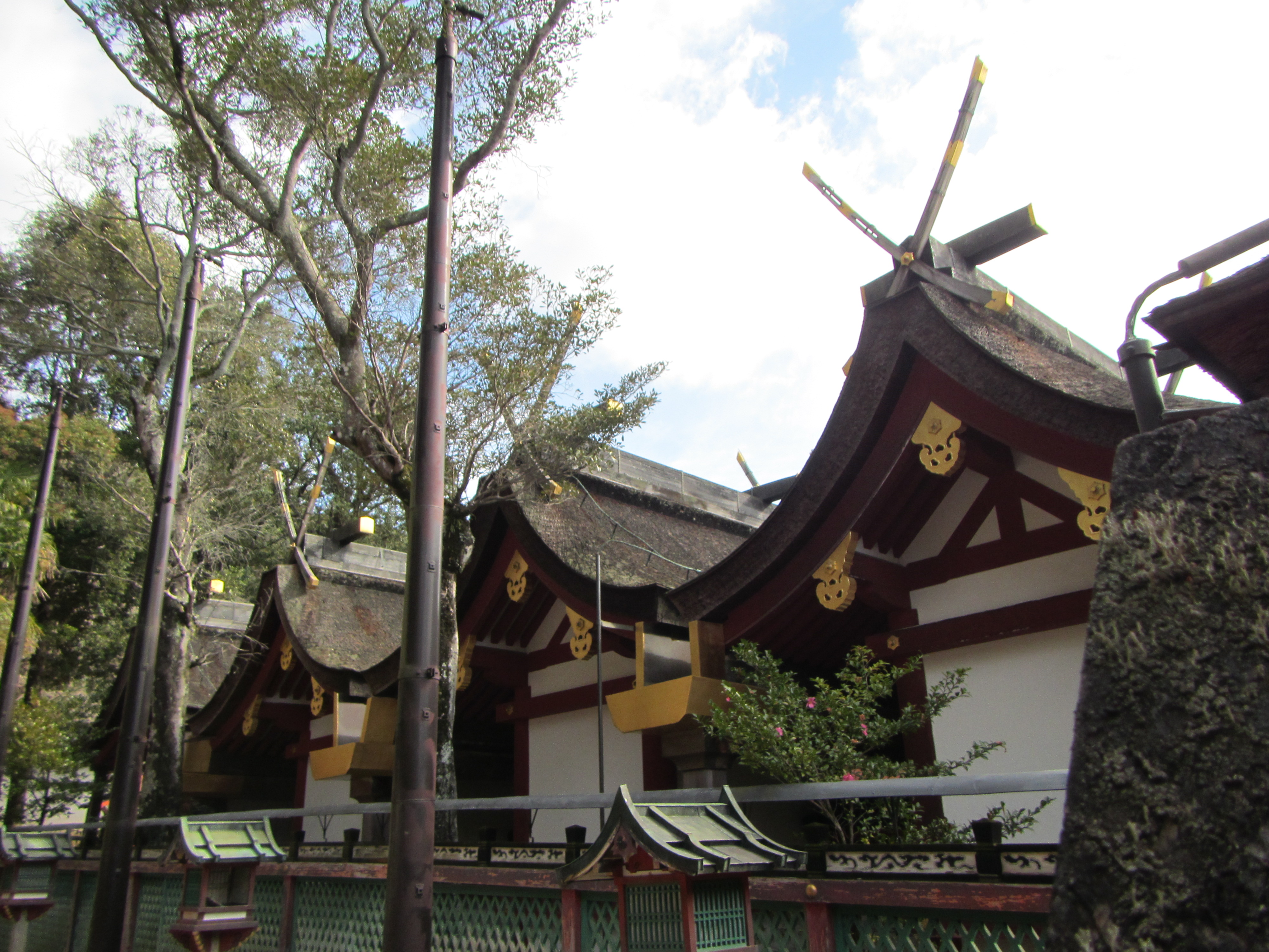 Kasuga Taisha Kasuga Grand Shrine National Treasure World heritage 国宝・世界遺産春日大社